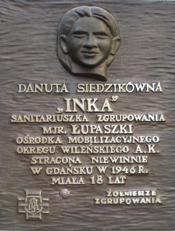 Danuta Siedzik Memorial Plaque, St. Mary's Church in Gdańsk